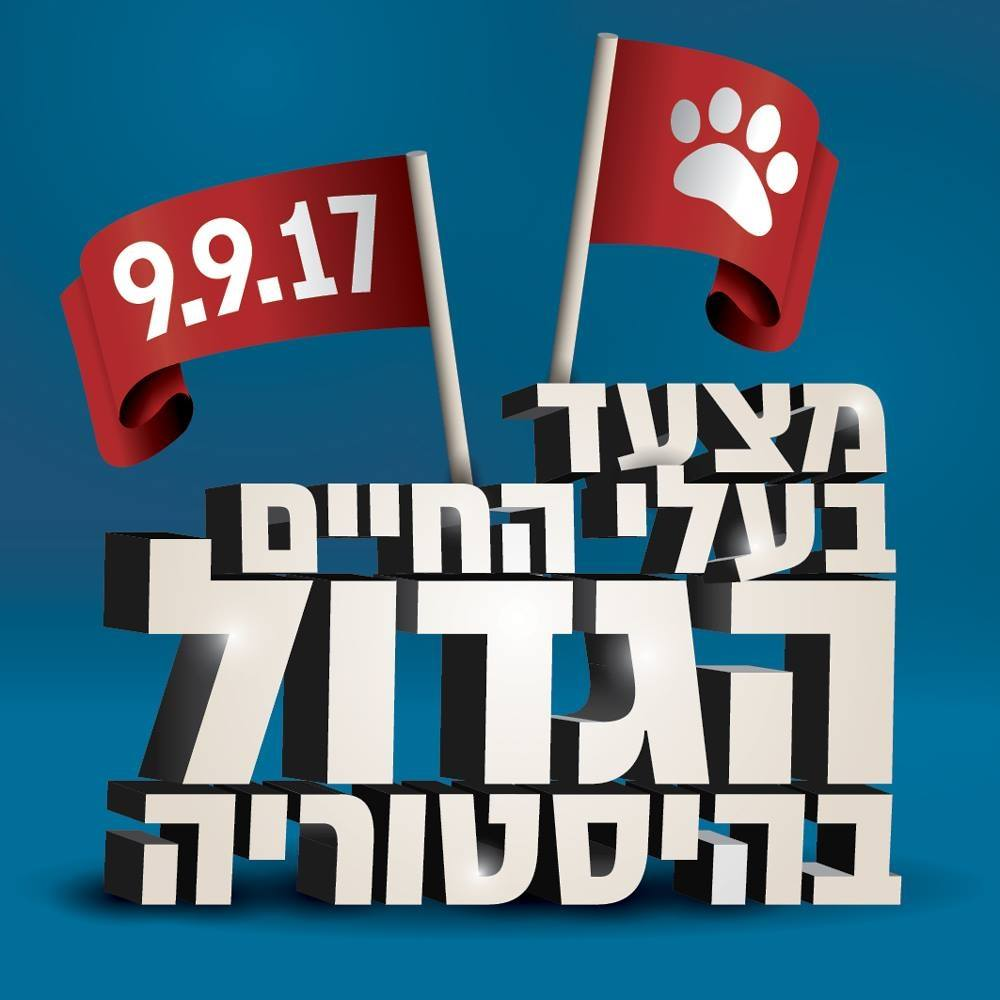 Israeli animal march logo 2017 in Hebrew